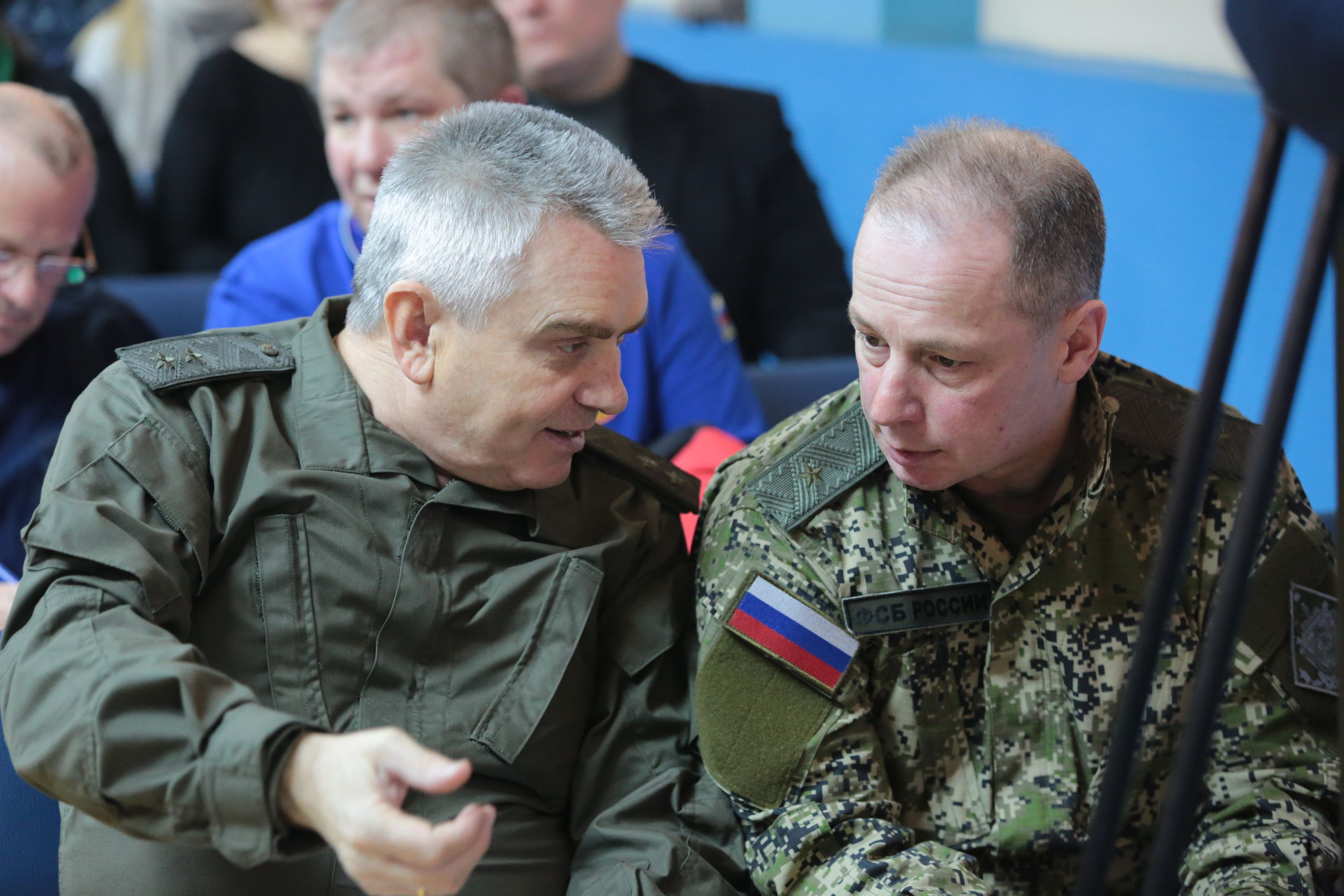 Work of the investigative committee set up to investigate the reasons behind the crash of Flydubai Flight 981